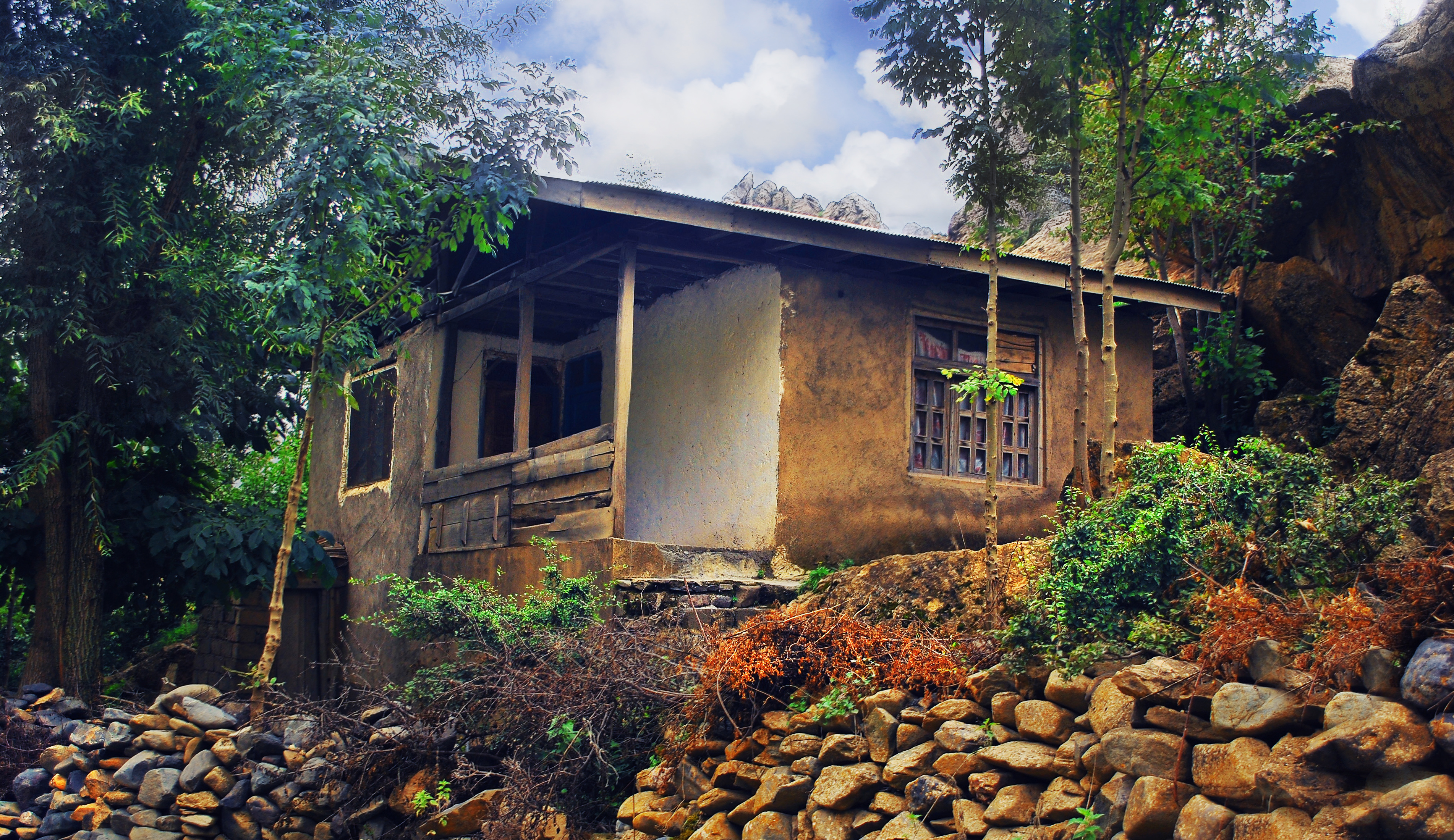 Mazandaran is a Caspian province in the north of Iran. Located on the southern coast of the Caspian Sea, it is bordered clockwise by the Golestan, Semnan, Tehran, Alborz, Qazvin, and Gilan provinces.